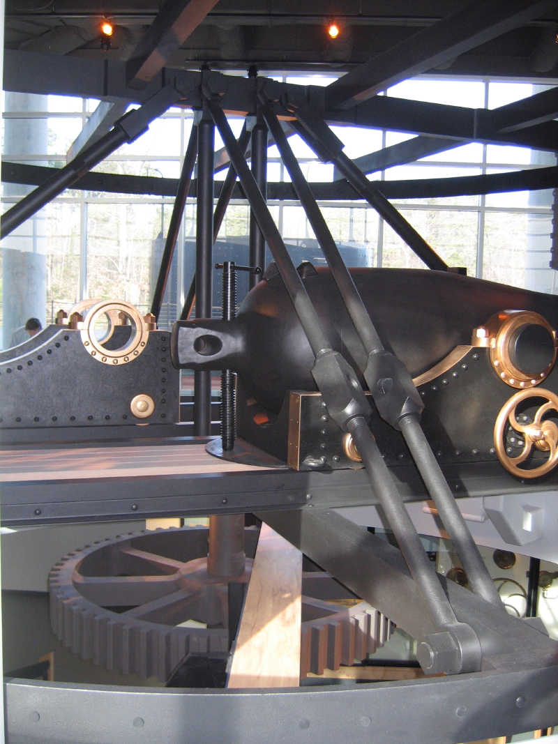 The interior of the replica turret of the USS Monitor at the Mariners' Museum